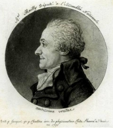 Antoine de Mailly in 1741. Engraving by Chrétien from a drawing by Fouquet.